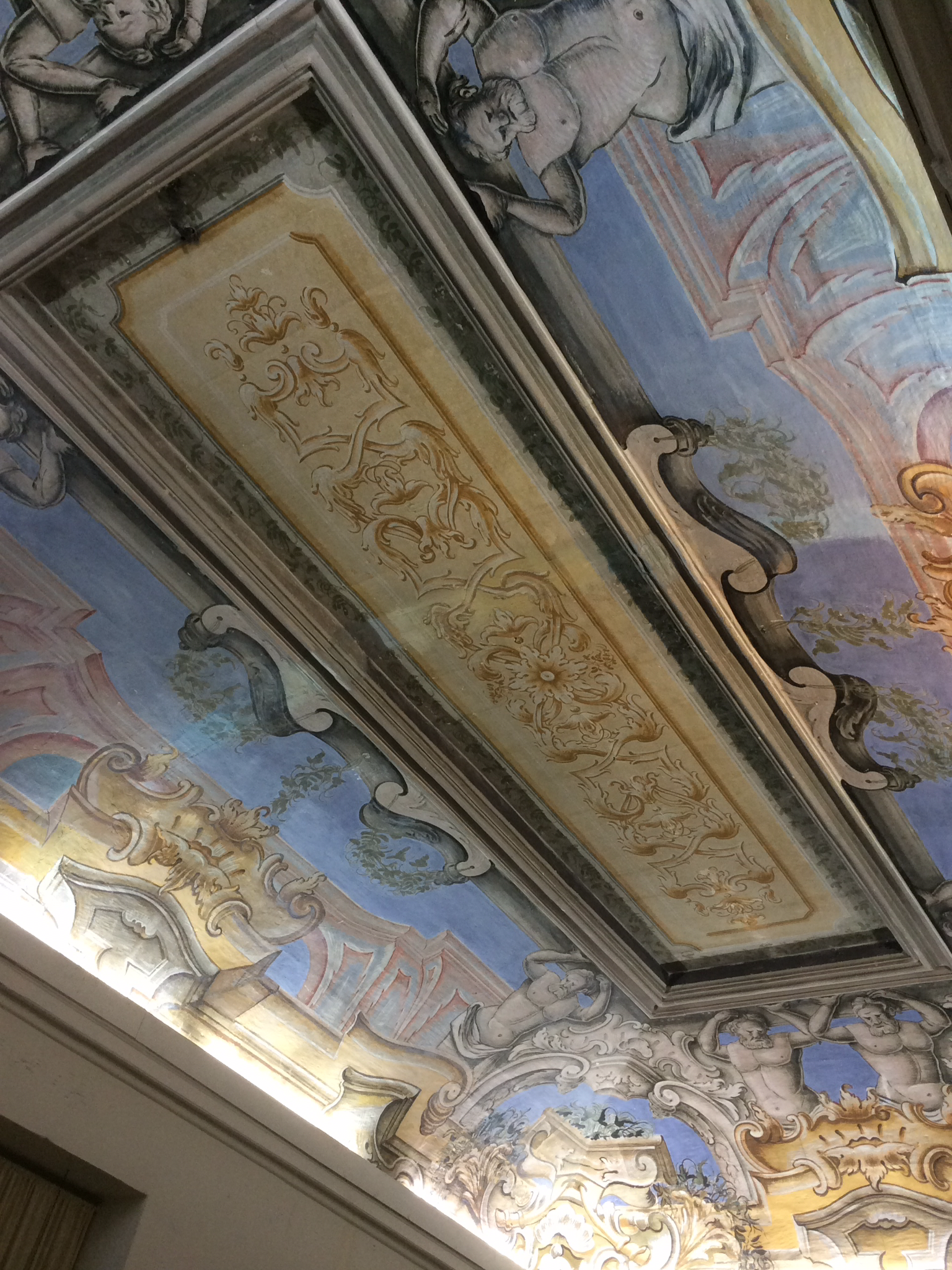 Afresco Admiralty House Valletta